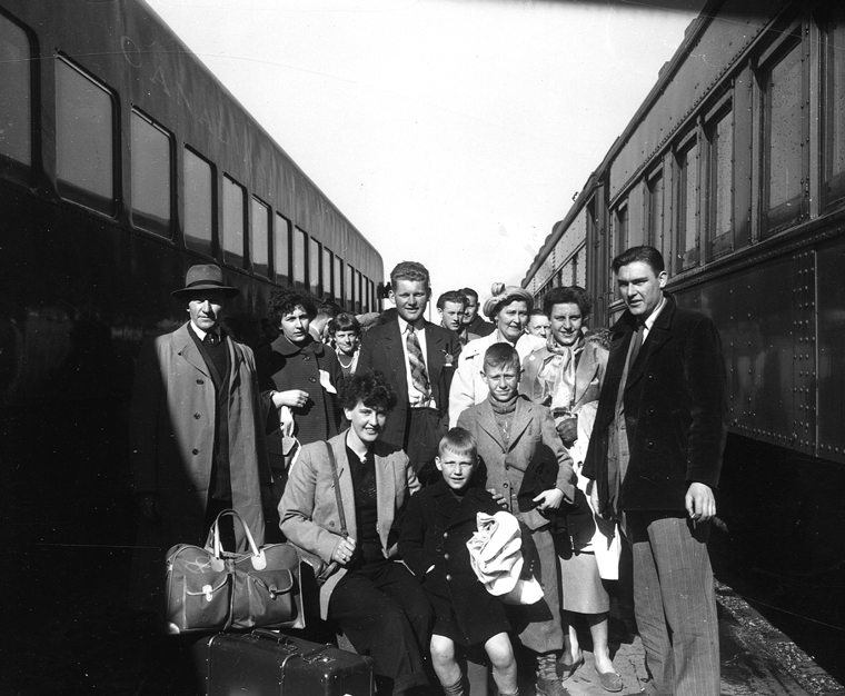 May 1953 To obtain high quality and larger reproductions of this image please visit the Galt Museum & Archives website: and include thIs number in your request: P19752990082